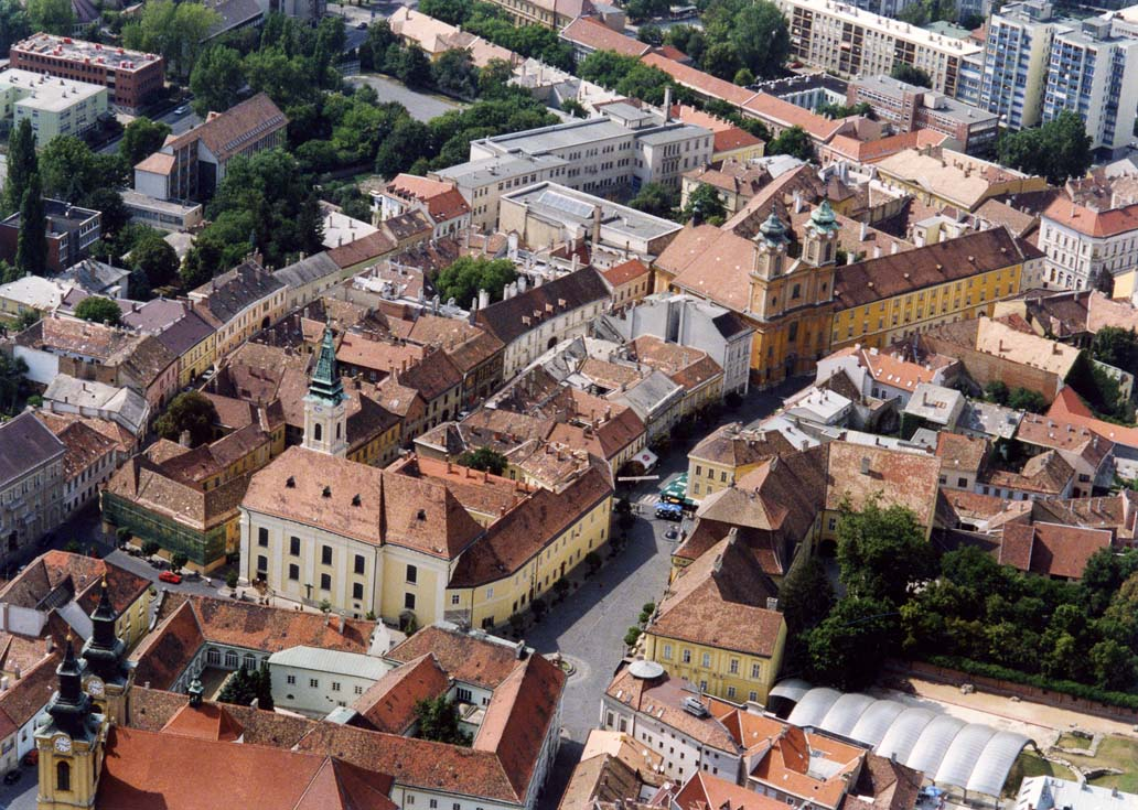 Székesfehérvár, Hungary, aerial photography